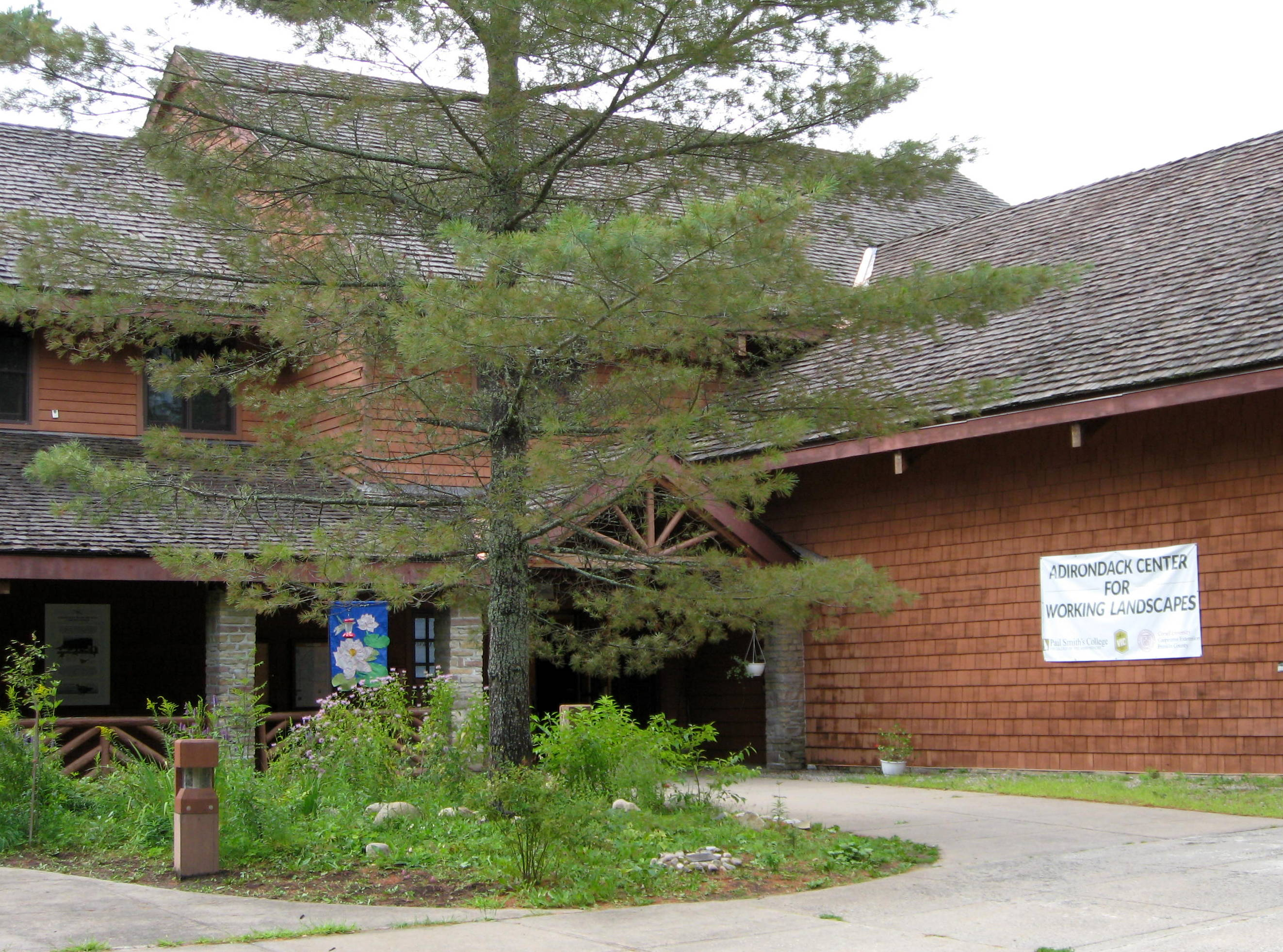 Paul Smiths Visitor Interpretation Center, Adirondack Park, NY, August 2014